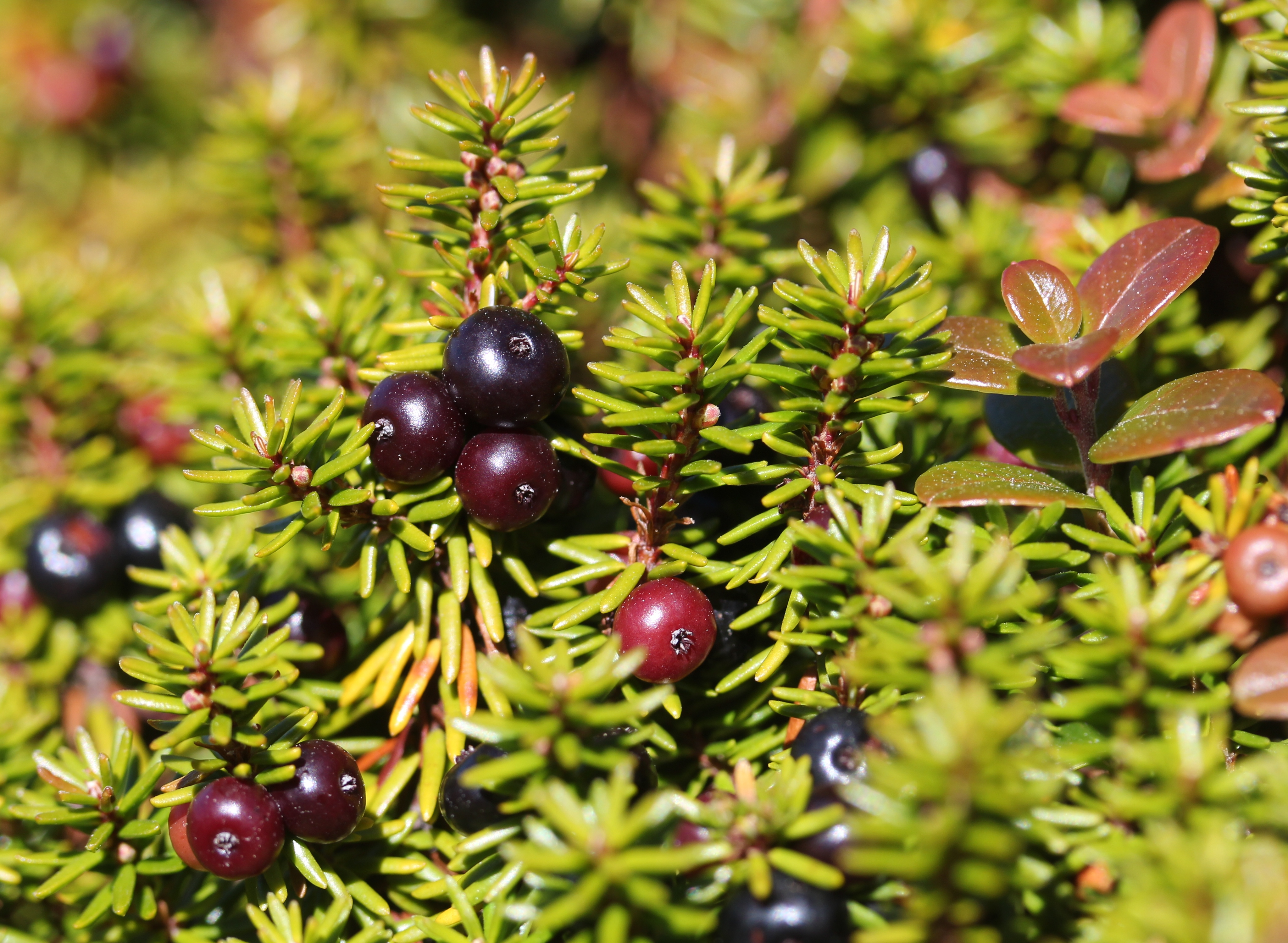 Empetrum nigrum subsp. asiaticum, fruits in Mount Kisokoma, Kiso town, Nagano prefecture, Japan.